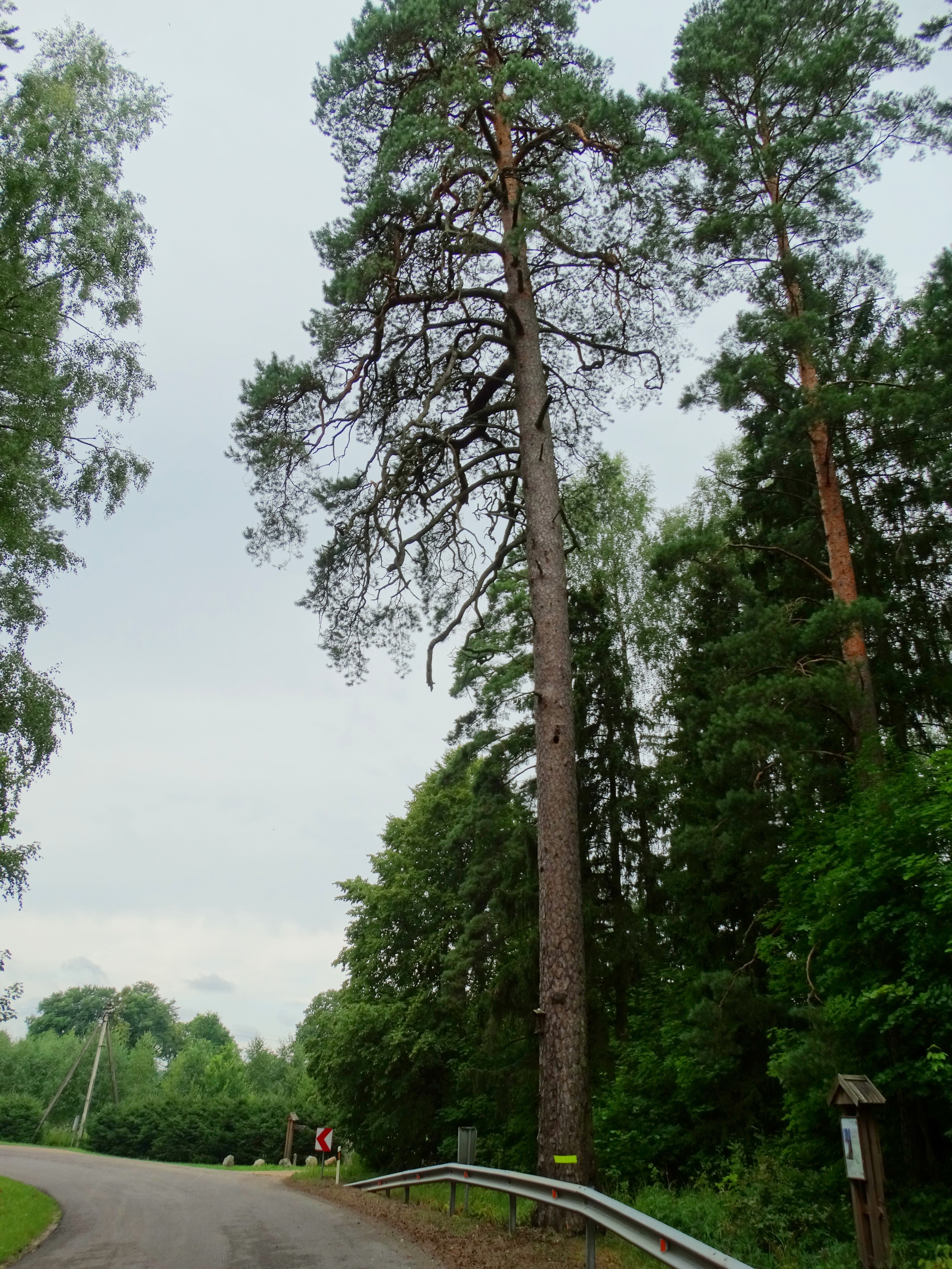 Santeklinė pine tree, Mažeikiai district, Lithuania